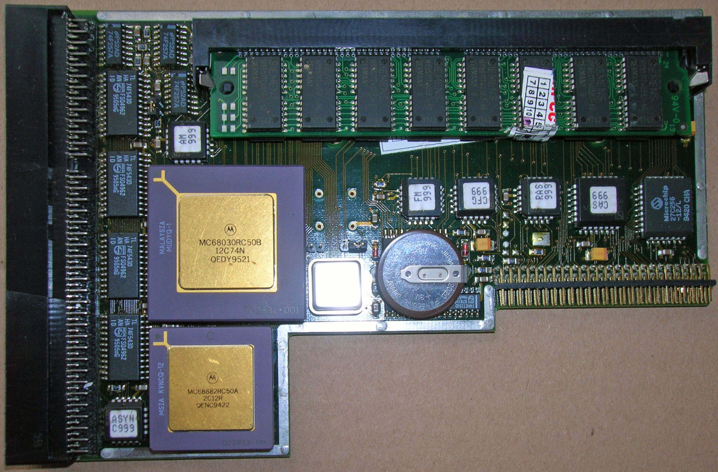 A Blizzard 1230 Mk III accelerator board for an Amiga 1200. The card has a Motorola 68030/50 MHz CPU and a Motorola 68882/50 MHz FPU as well as 32 MB memory stick.